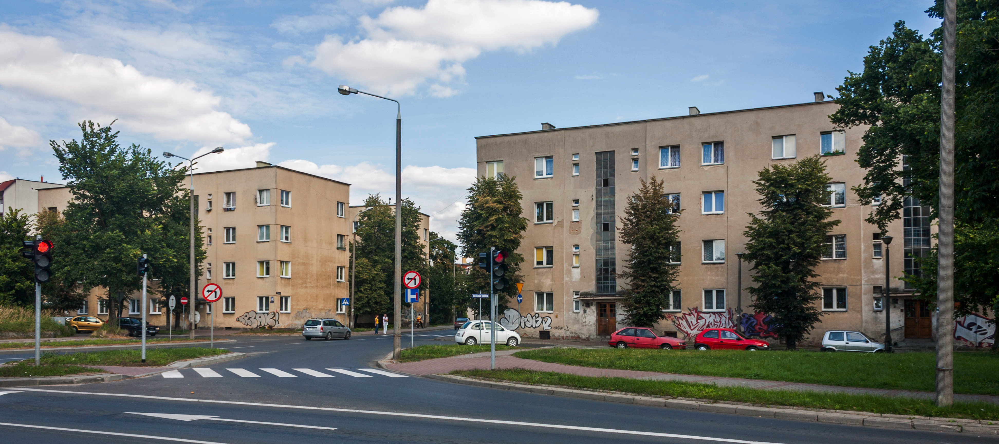 Apartment blocks at Staszica Street in Toruń.